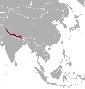 Hemitragus jemlahicus range map